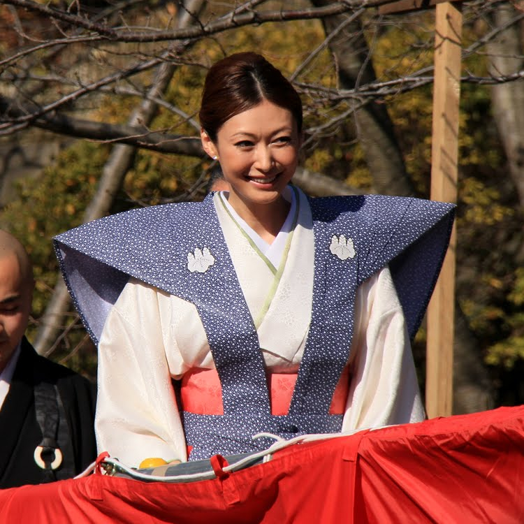 Maki Tamaru is a Japanese actress.